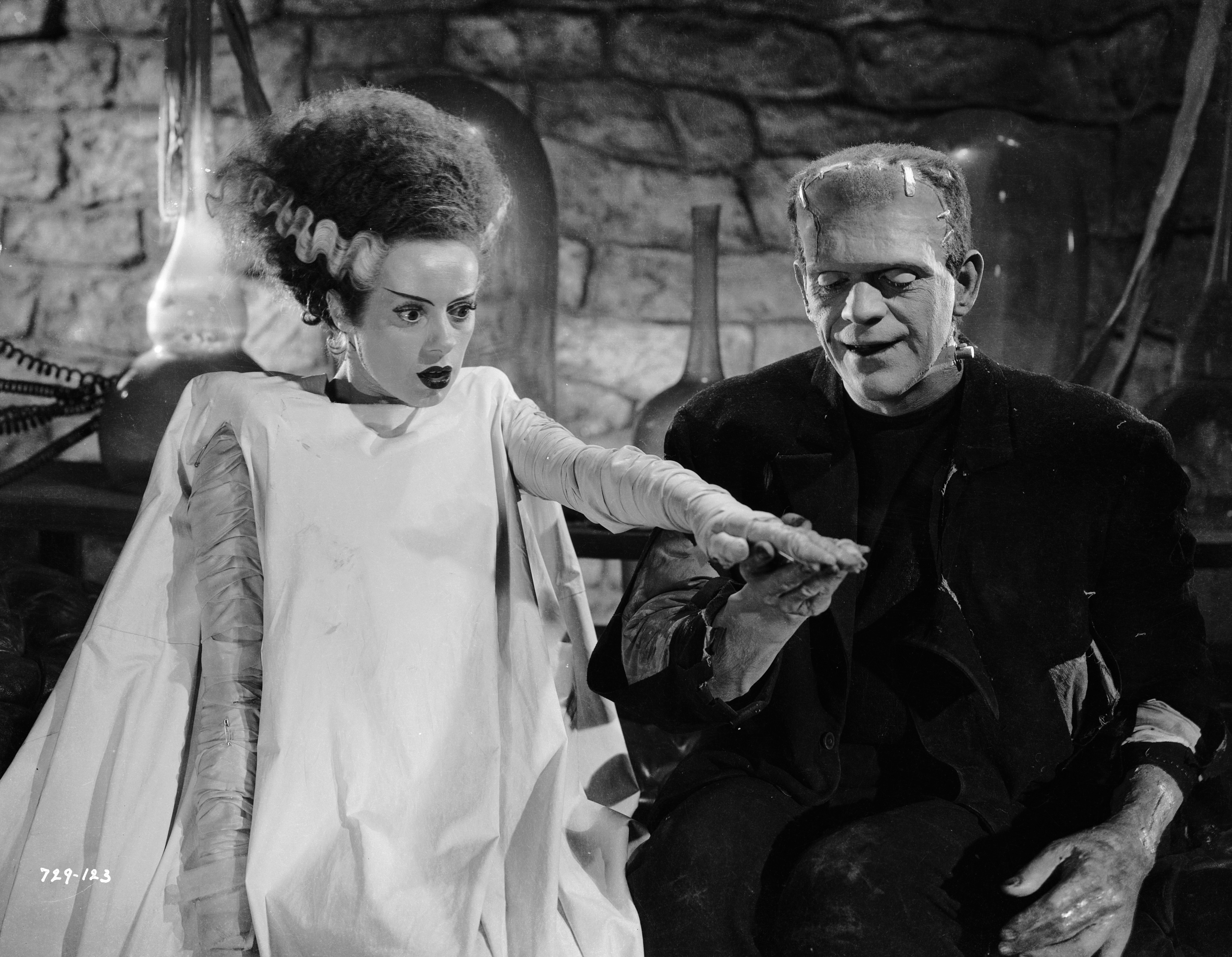 Photo of Elsa Lanchester and Boris Karloff from the 1935 film The Bride of Frankenstein. Note that the image uploaded here is of better quality than the newsprint photo. Renewals were checked in publications for the years 1962 and 1963. There were no listings for the San Bernardino County Sun. There's no evidence of current copyright.